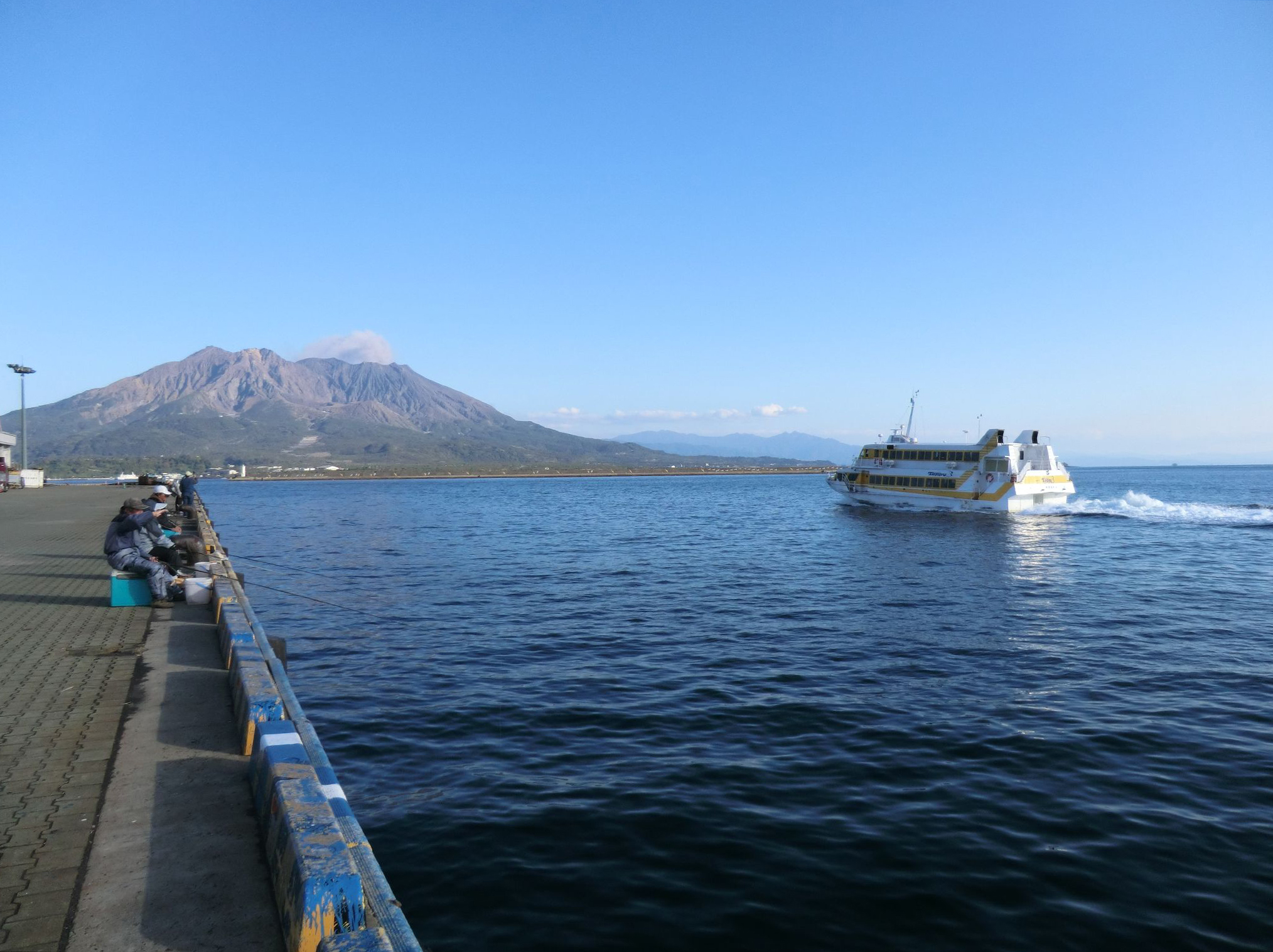 Mt. Sakurajima as viewed from the Port of Kagoshima.Casio Exilim EX-H20G